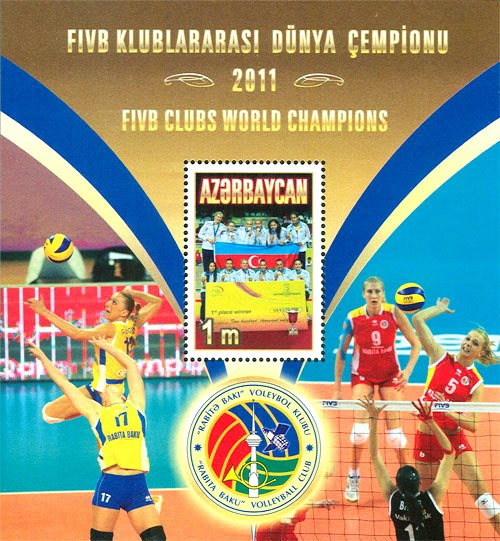 "Rabita Baku" volleyball club - FIVB clubs world champions 2011